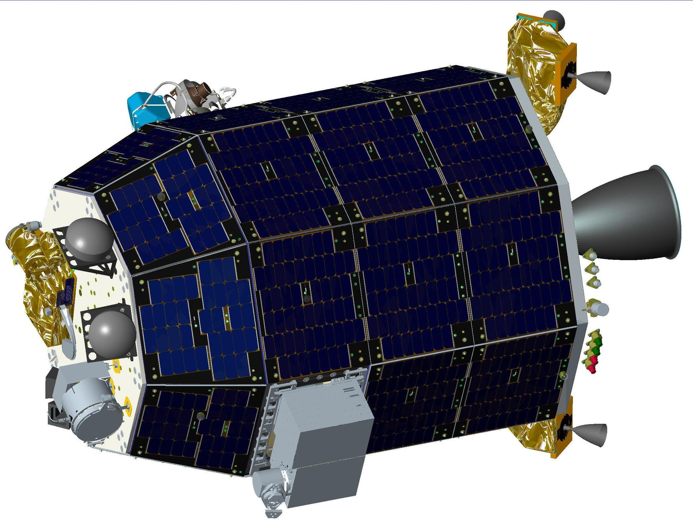 LADEE Spacecraft A computer-generated model of the LADEE spacecraft. Credit: NASA/Ames